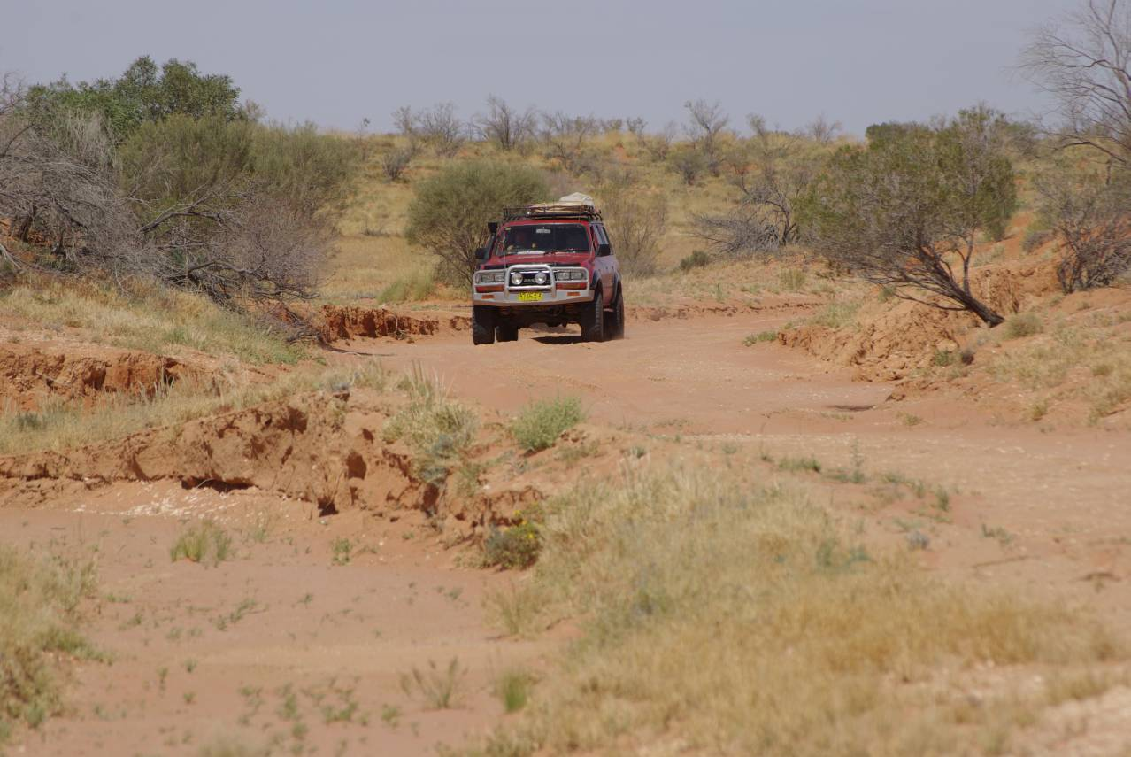 Driving on Bore Track of Strzelecki Desert, South Australia